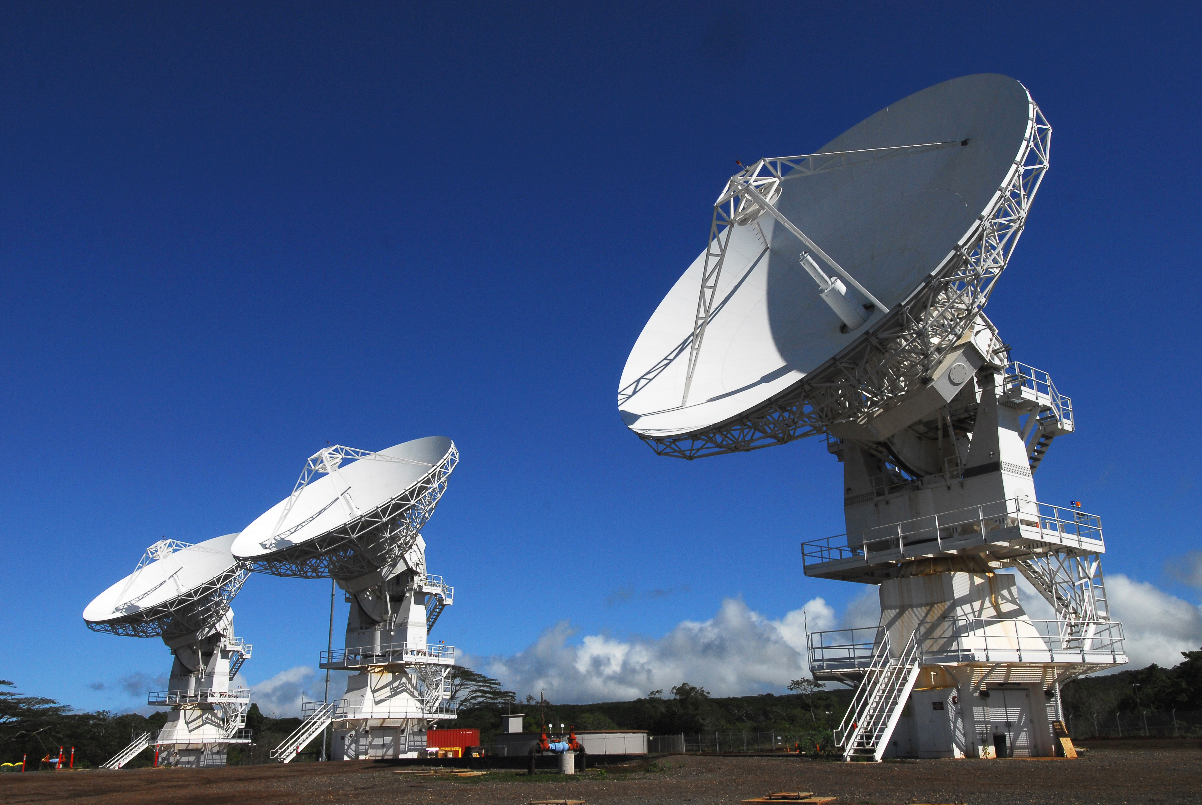 081103-N-9698C-001 WAHIAWA, Hawaii (Nov. 3, 2008) The Mobile User Objective System (MUOS) ground station at Naval Computer and Telecommunications Area Master Station Pacific, Wahiawa, Hawaii.